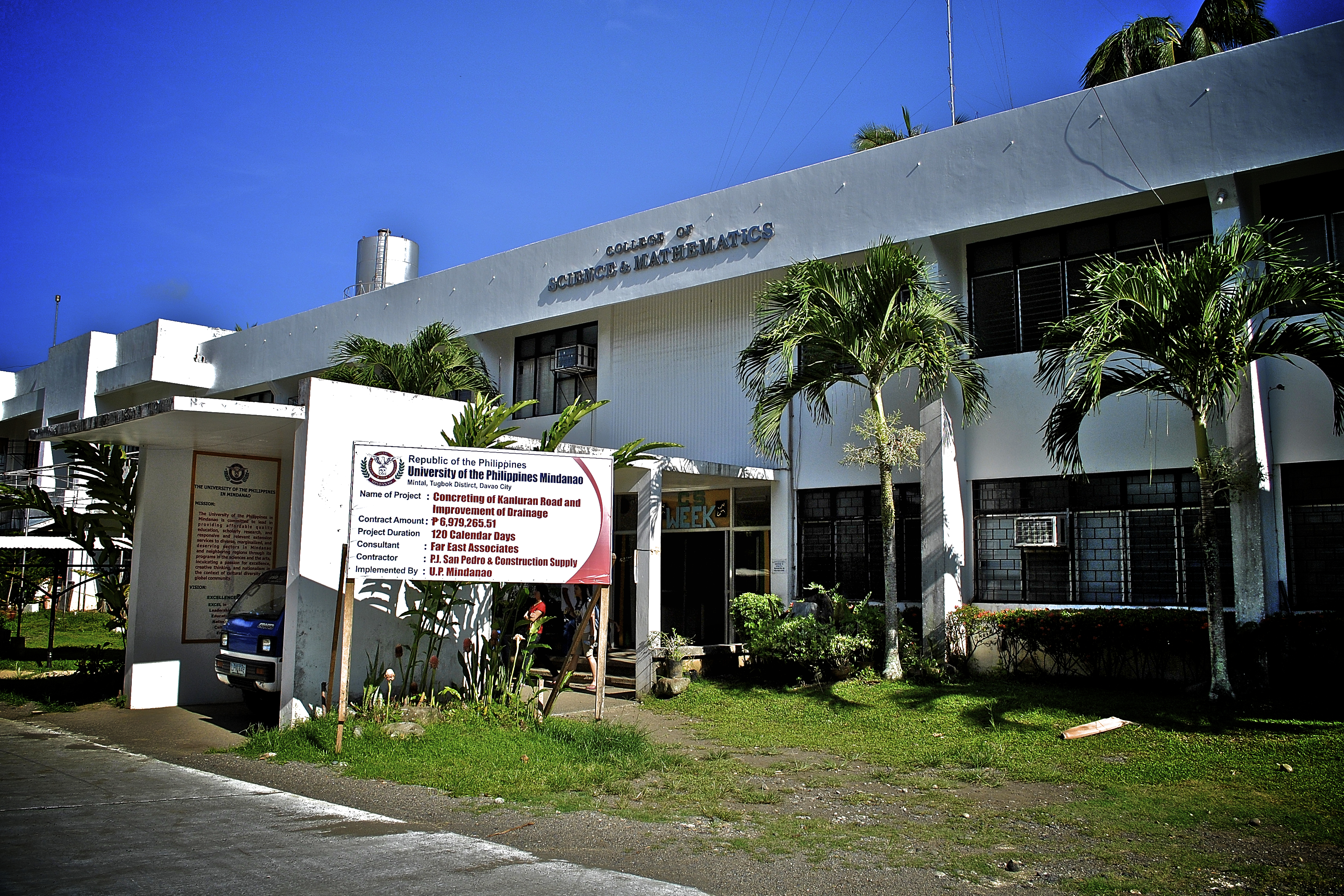 Academic Building I (Kanluran Bldg.) housing the classrooms for the College of Science and Mathematics.